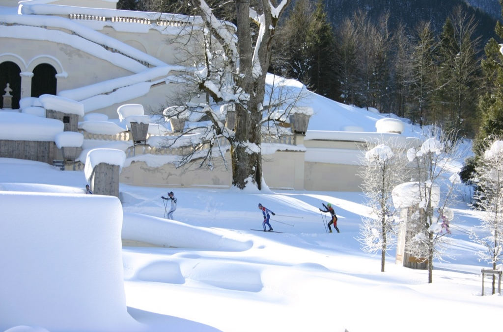 The country skiers field before Linderhof castle